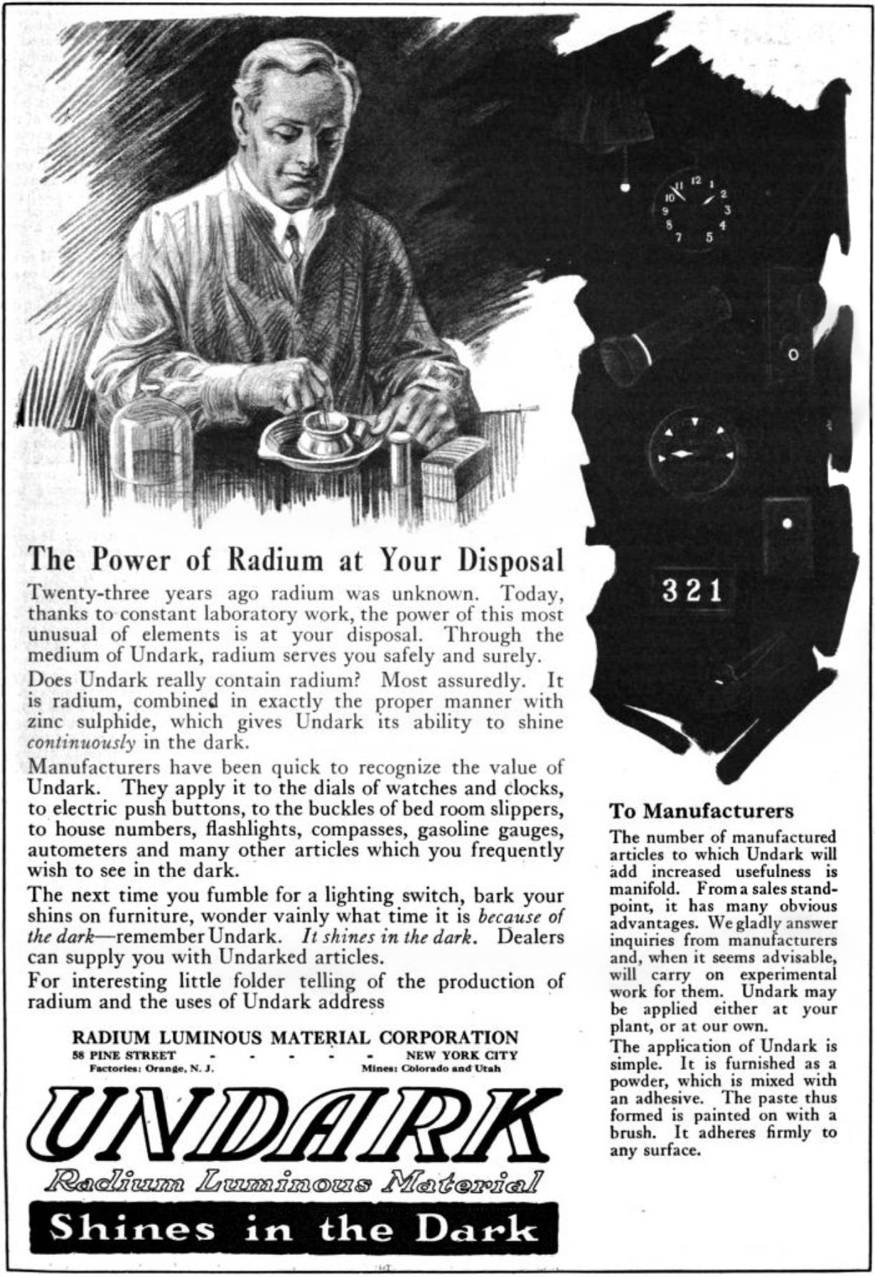 1921 magazine advertisement for Undark, a product of the Radium Luminous Material Corporation which was involved in the Radium Girls scandal.